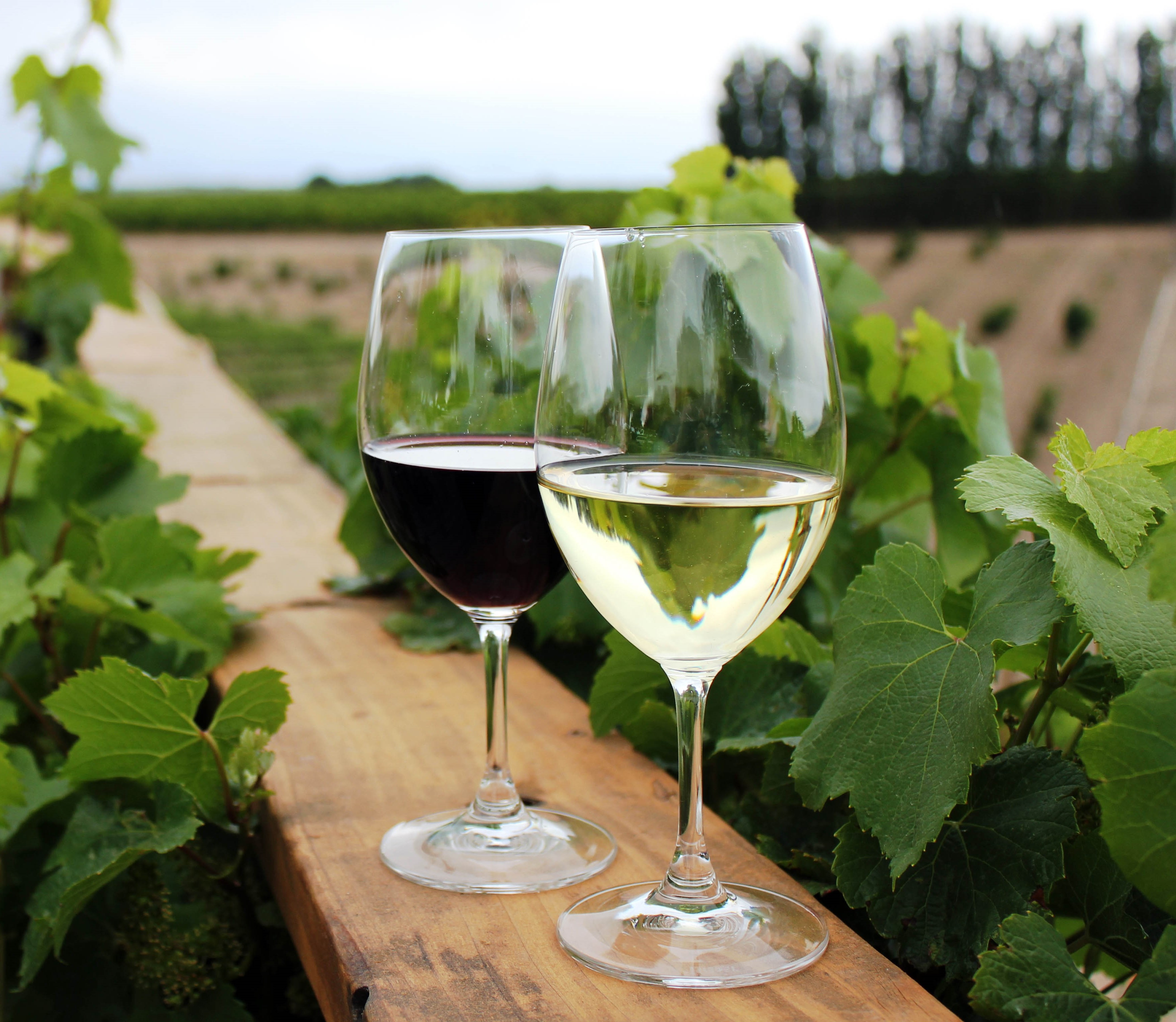 Wine